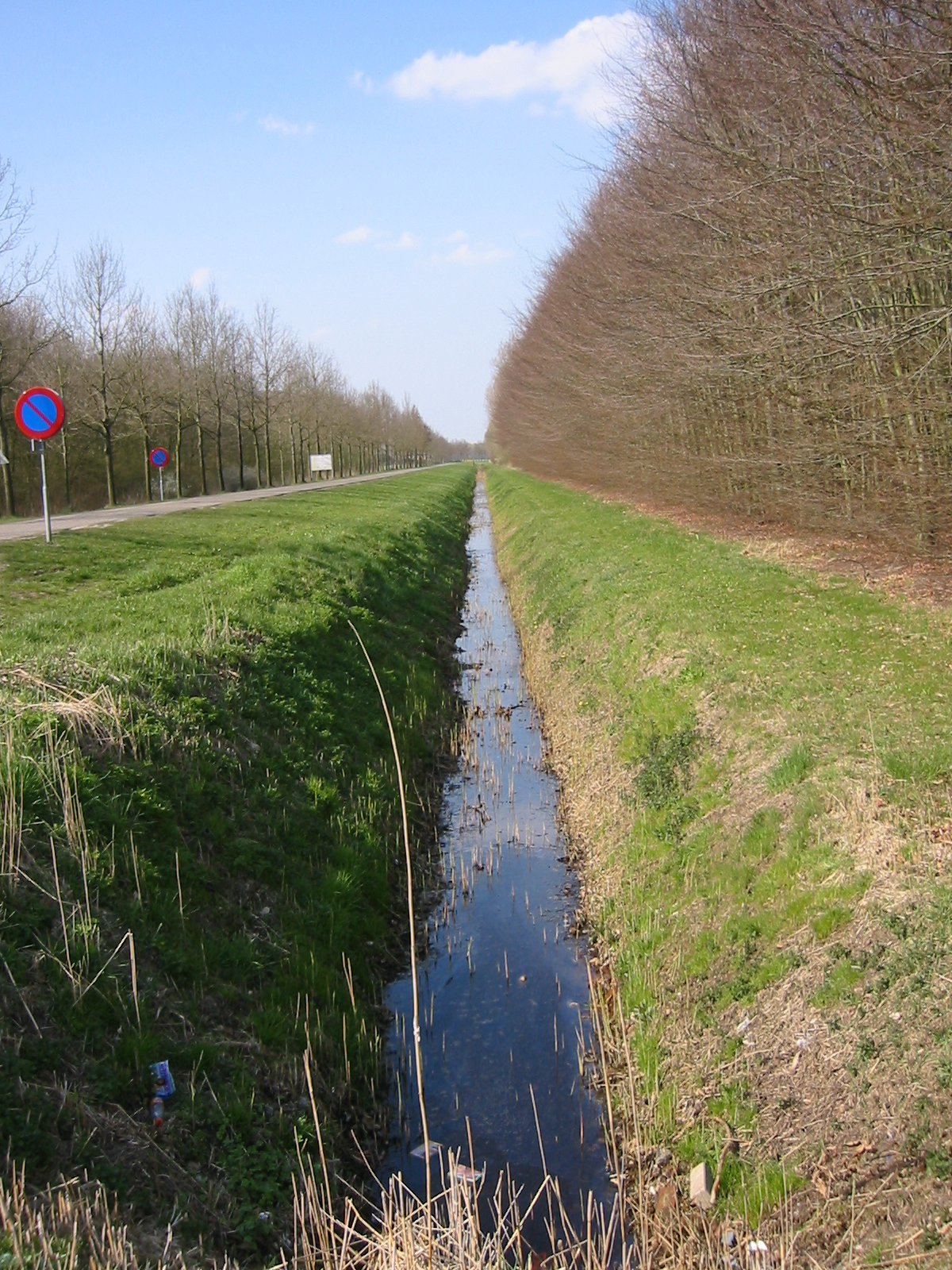 A well maintained ditch in the Netherlands.